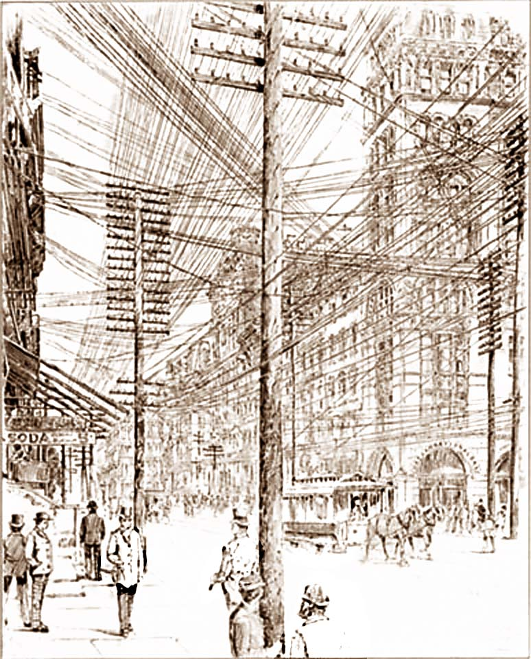 Etching of Overhead Telephone and Telegraph Wires in Broadway, 1890. "Wires snapped on a regular basis as a result of over tension, wind, or ice weighing them down. The electrical wires carried a significant charge, but the other wires carried electricity as well. As wires snapped and lashed across streets, smashing against buildings, thrashing about, spraying sparks in all directions, blocks were rendered impassable until power to the downed lines could be cut."